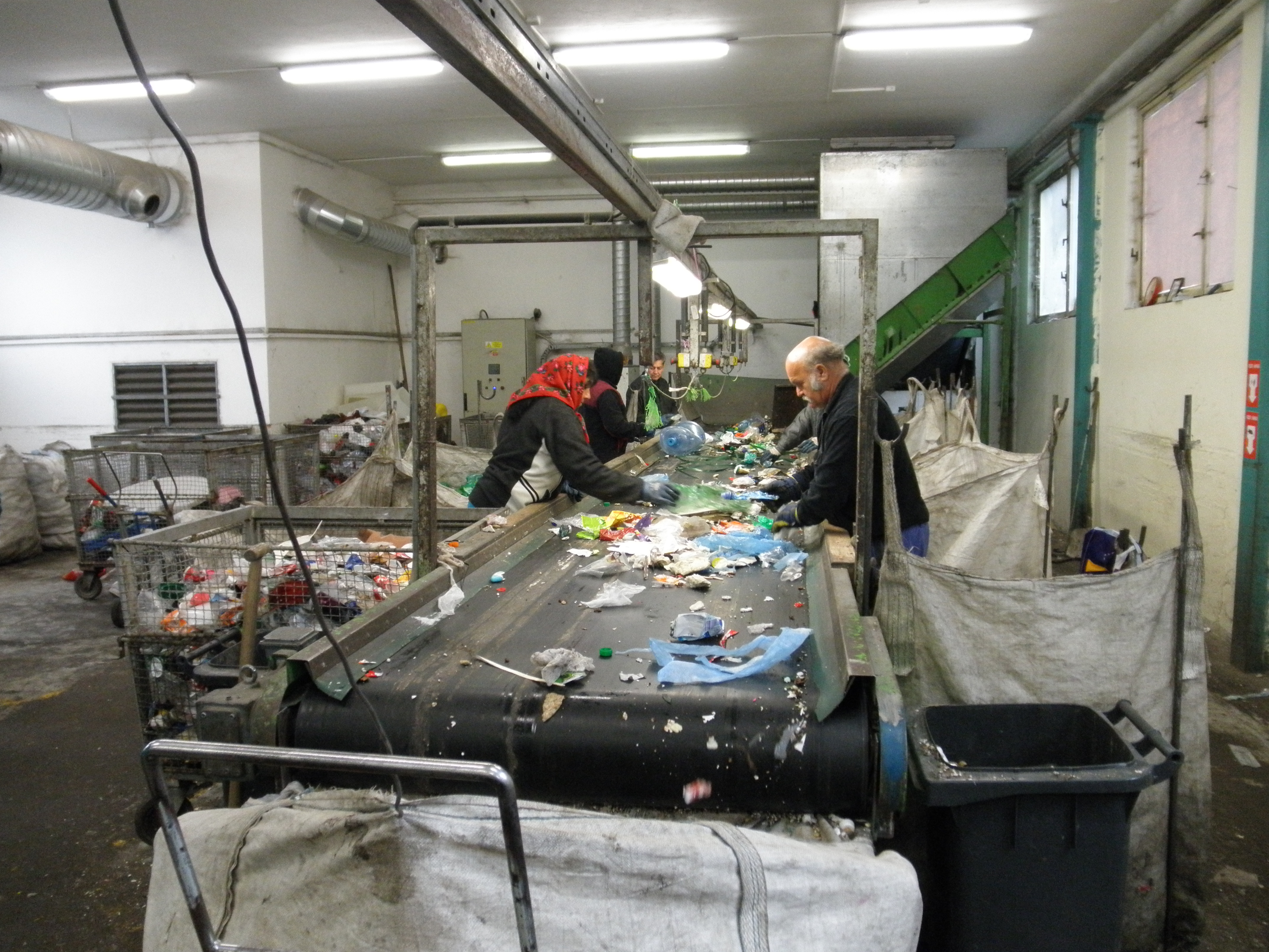 Sorting of plastics in materials recovery facility. In Olomouc, the Czech Republic.